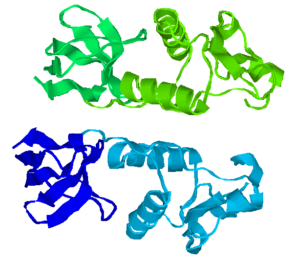 quarternary protein structure of the PDB structure 1EFN